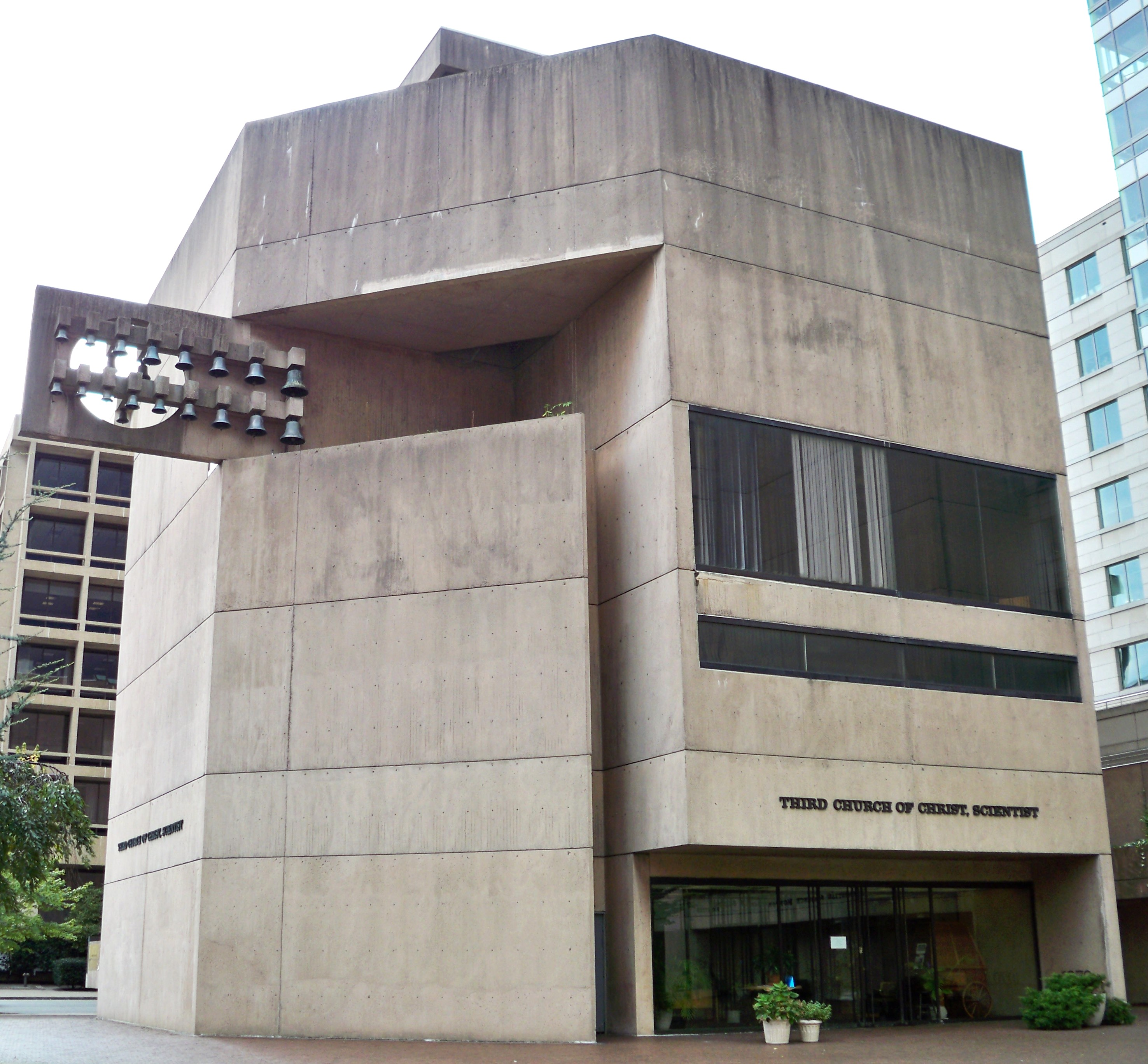 The Third Church of Christ, Scientist (1971) in Washington, DC near the White House. The building was designed by Araldo Cossutta. This view shows the entrance to the building from the small adjoining plaza. The building was demolished in 2014.